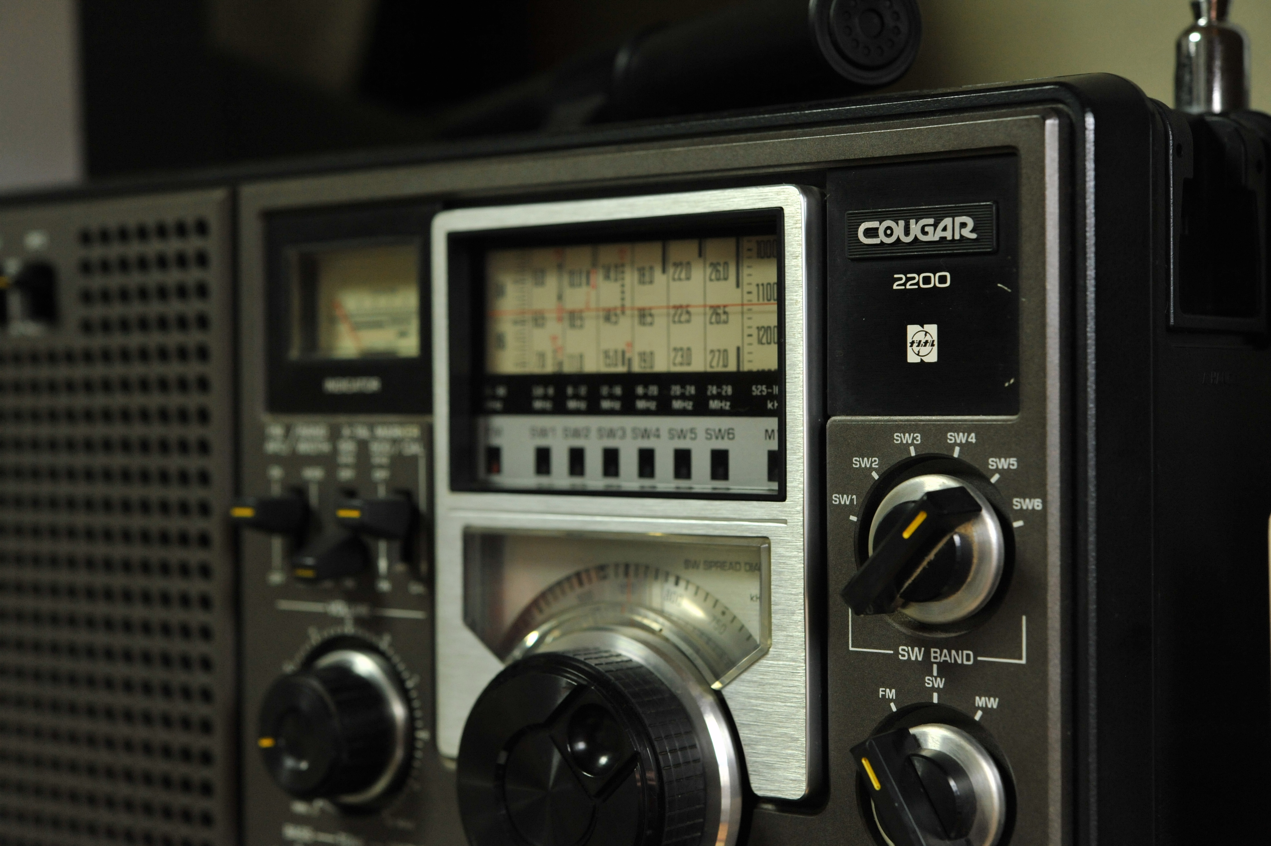 National Cougar 2200 radio (1976)